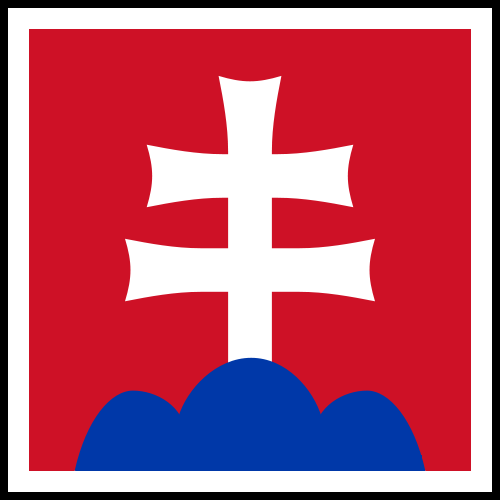 Slovak Army Roundel (for use on Military vehicles)